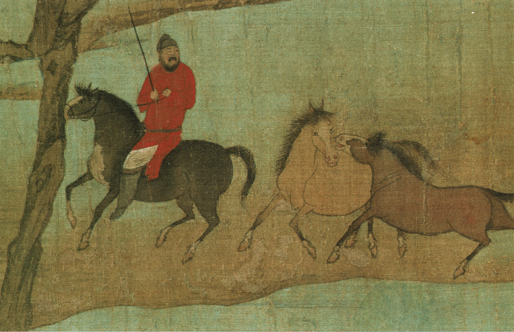 Zhao Mengfu. Horse Herding in Autumn Countryside, 1312 23,6х59см. Section. Palace Museum, Beijing.